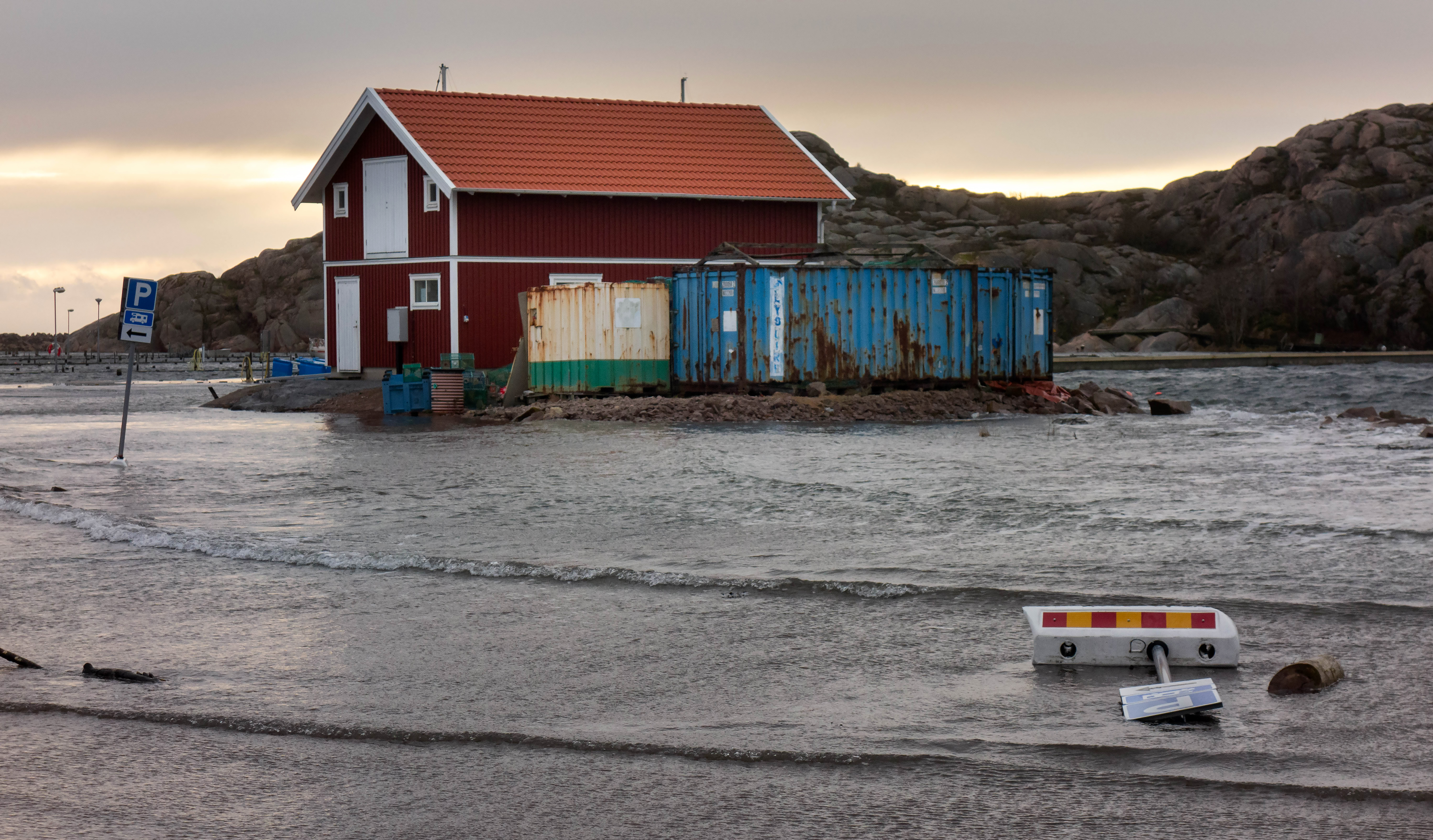 A flooded parking lot during Storm Ciara 2020, in Valbodalen, Lysekil, Sweden. During the storm, sea levels along the west coast of Sweden were the highest in 34 years, in some areas as high as 137 cm (54 in) above average. In this photo, the sea is about 100 cm (39 in) above average with wind speed at 22 m/s (49 mph).